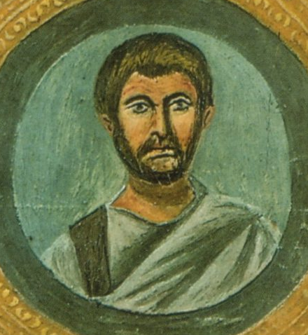 Cropped portrait of Terence from File:Vaticana, Vat. lat. 3868 (2r).jpg